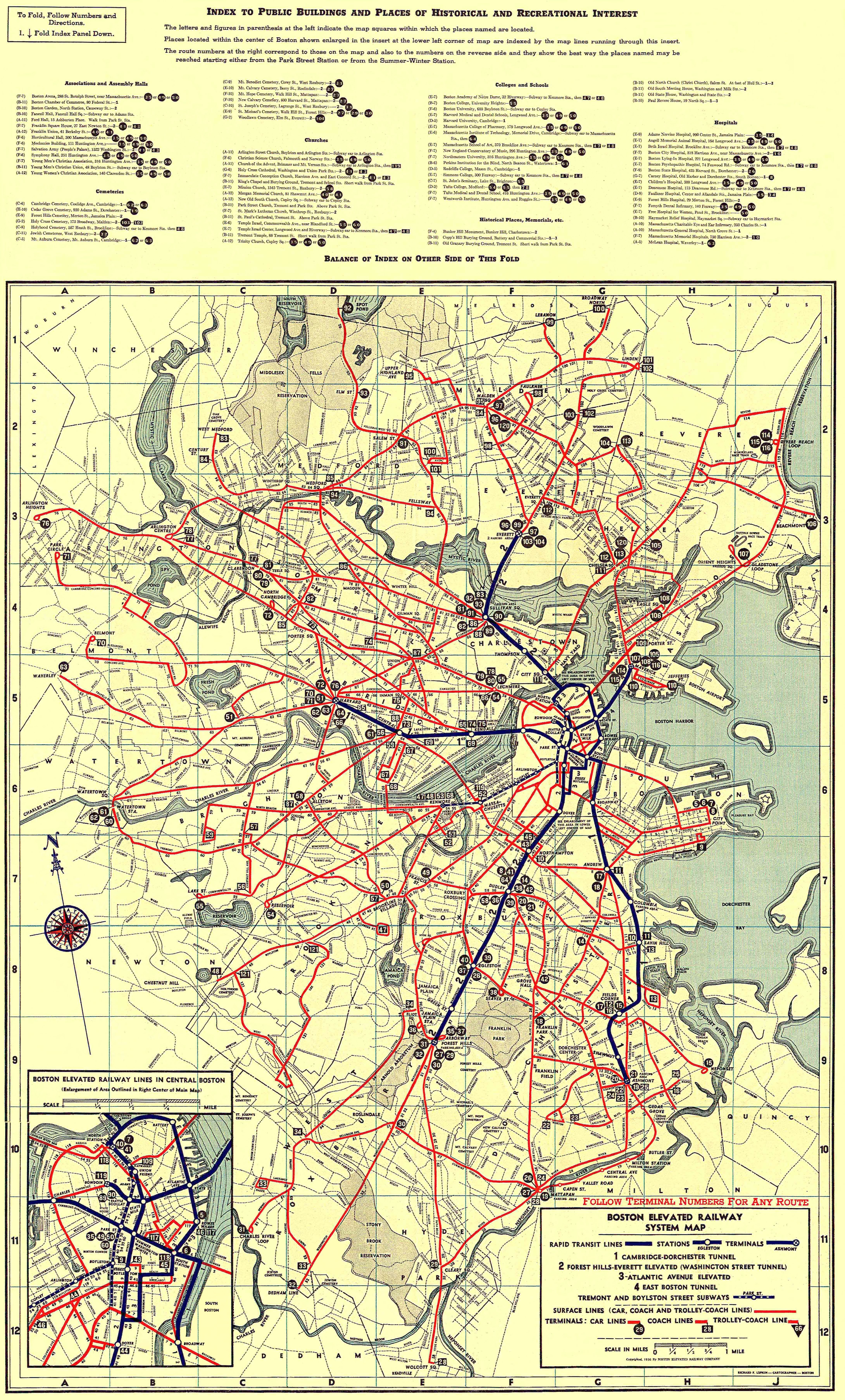 1936 map of the Boston Elevated Railway system